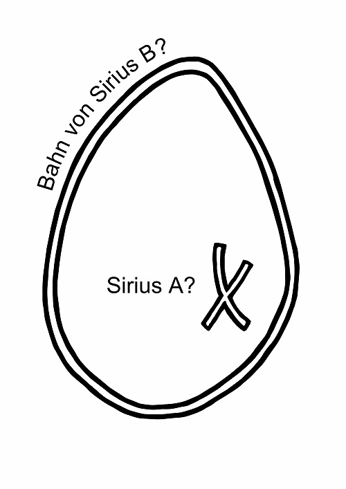 A diagram as drawn by the Dogon to show - it is sometimes claimed - the double star system Sirius A and B.